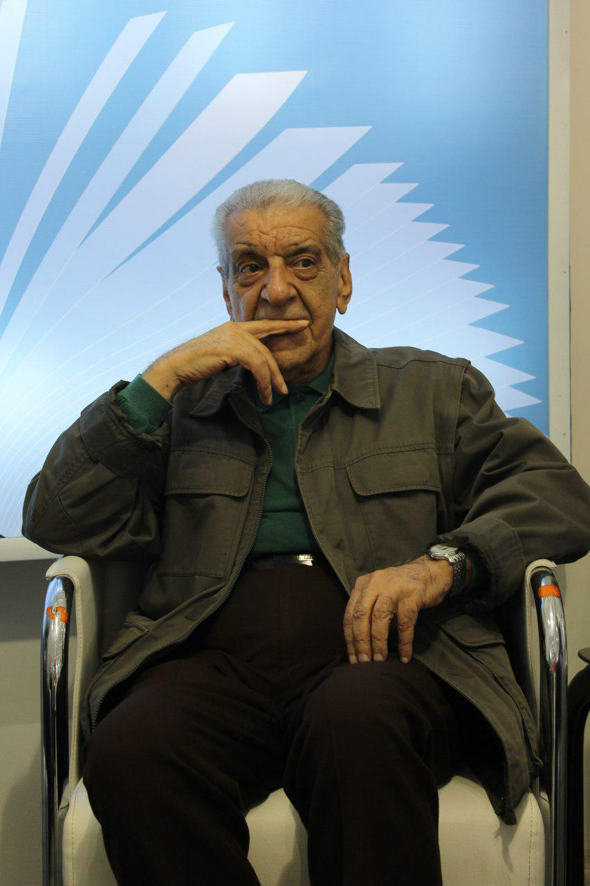 Ezzatolah Fooladvand-Tehran International Book Fair - May 8, 2017